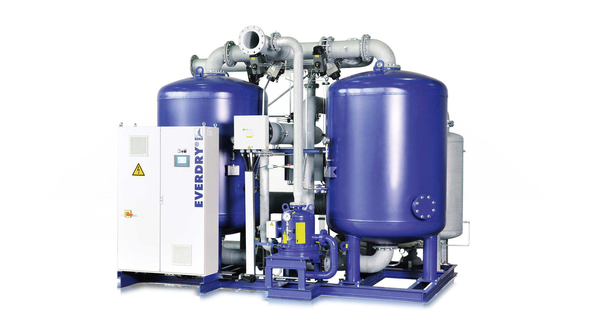 Adsorptiondryer Everdry by BEKO Technologies